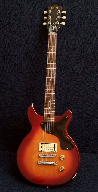 Late-production Gibson Spirit I, shown in sunburst with separate bridge and tailpiece.